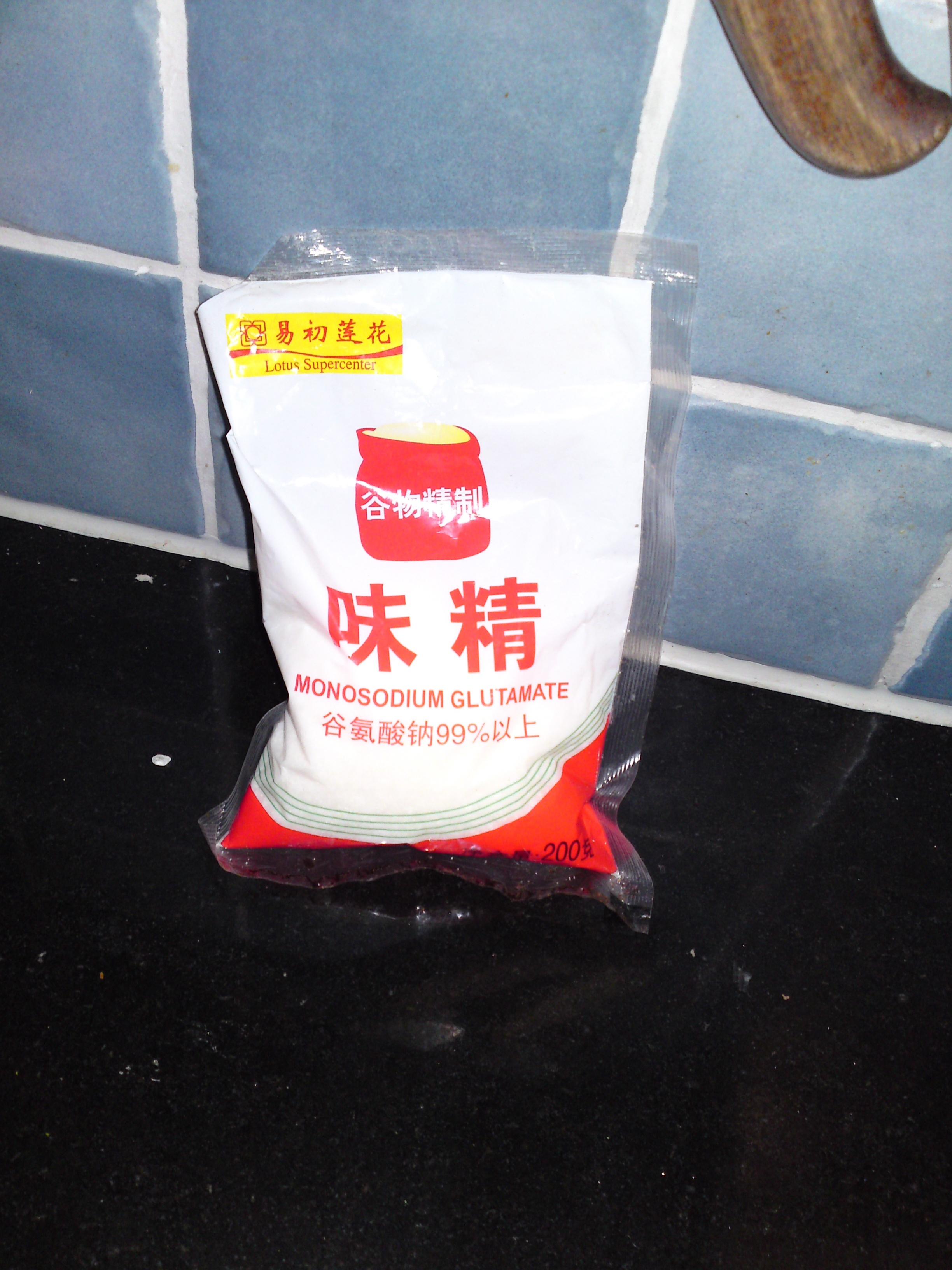 Monosodium glutamate in a bag.